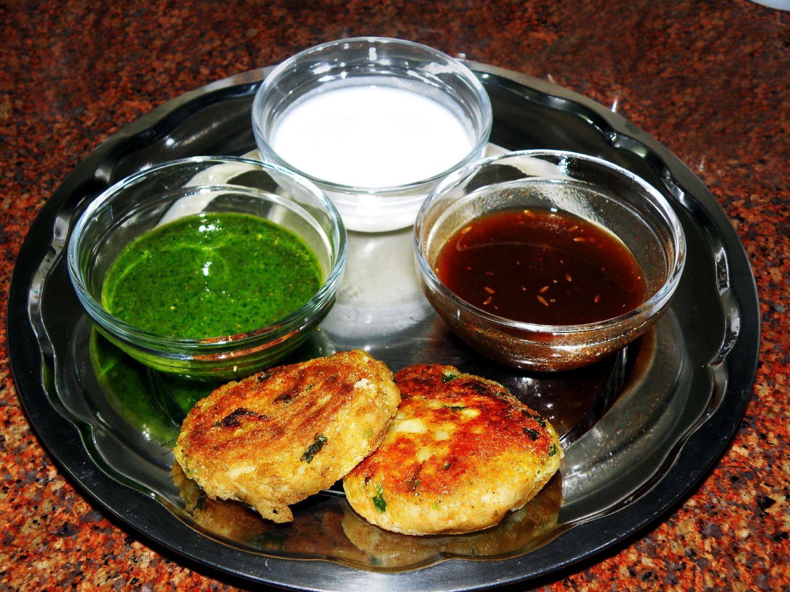 Just a break from all the history lectures. Warning: This stuff is pretty heavy on the digestive system. Make sure you are in a well ventilated place after eating this so as to avoid inconvenience to those around you.:D:P How to eat this: I like the messiest way. Empty all the three bowls on the tikkis and mix it well.